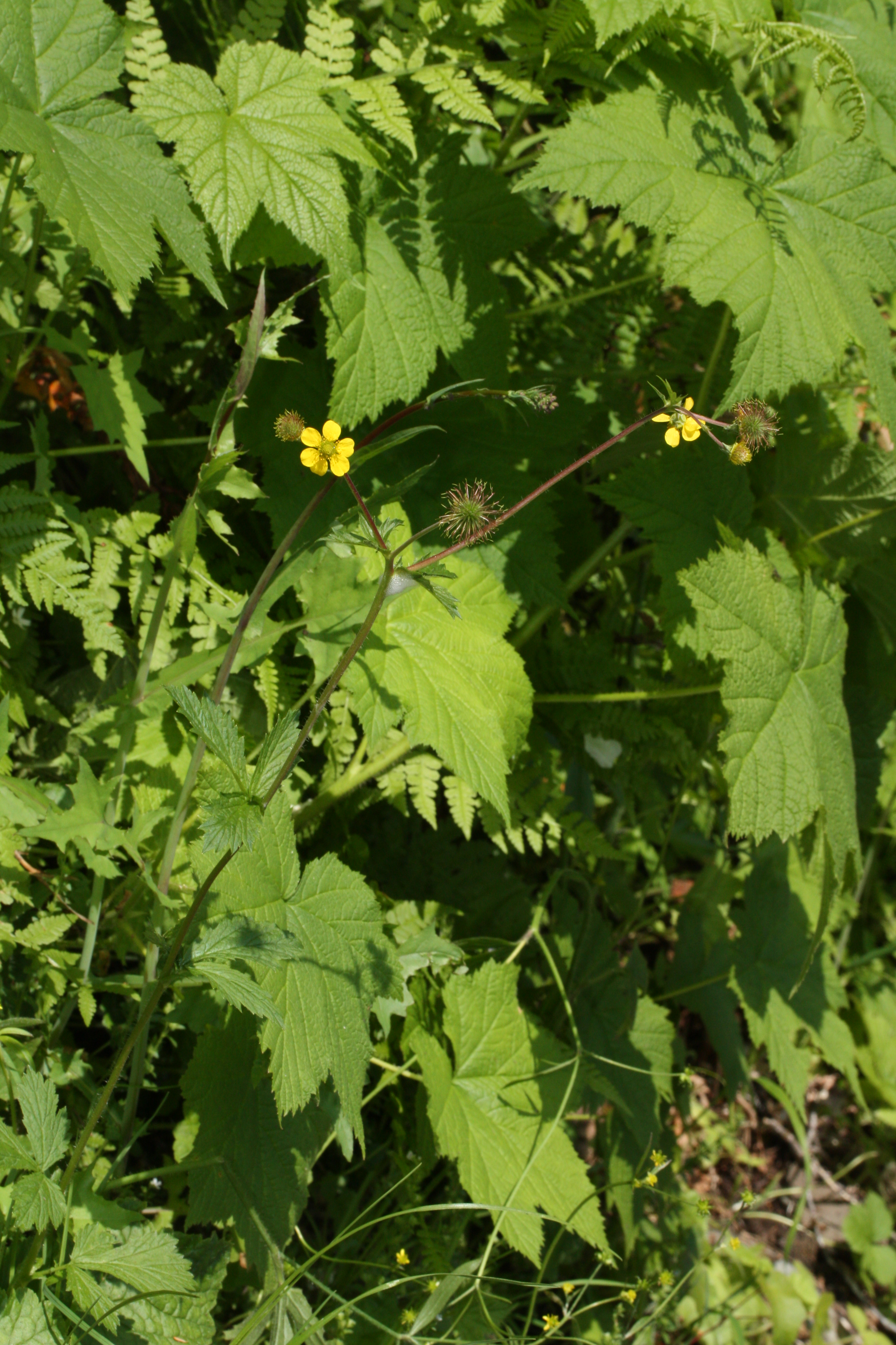 Largeleaf Avens, Bigleaf Avens